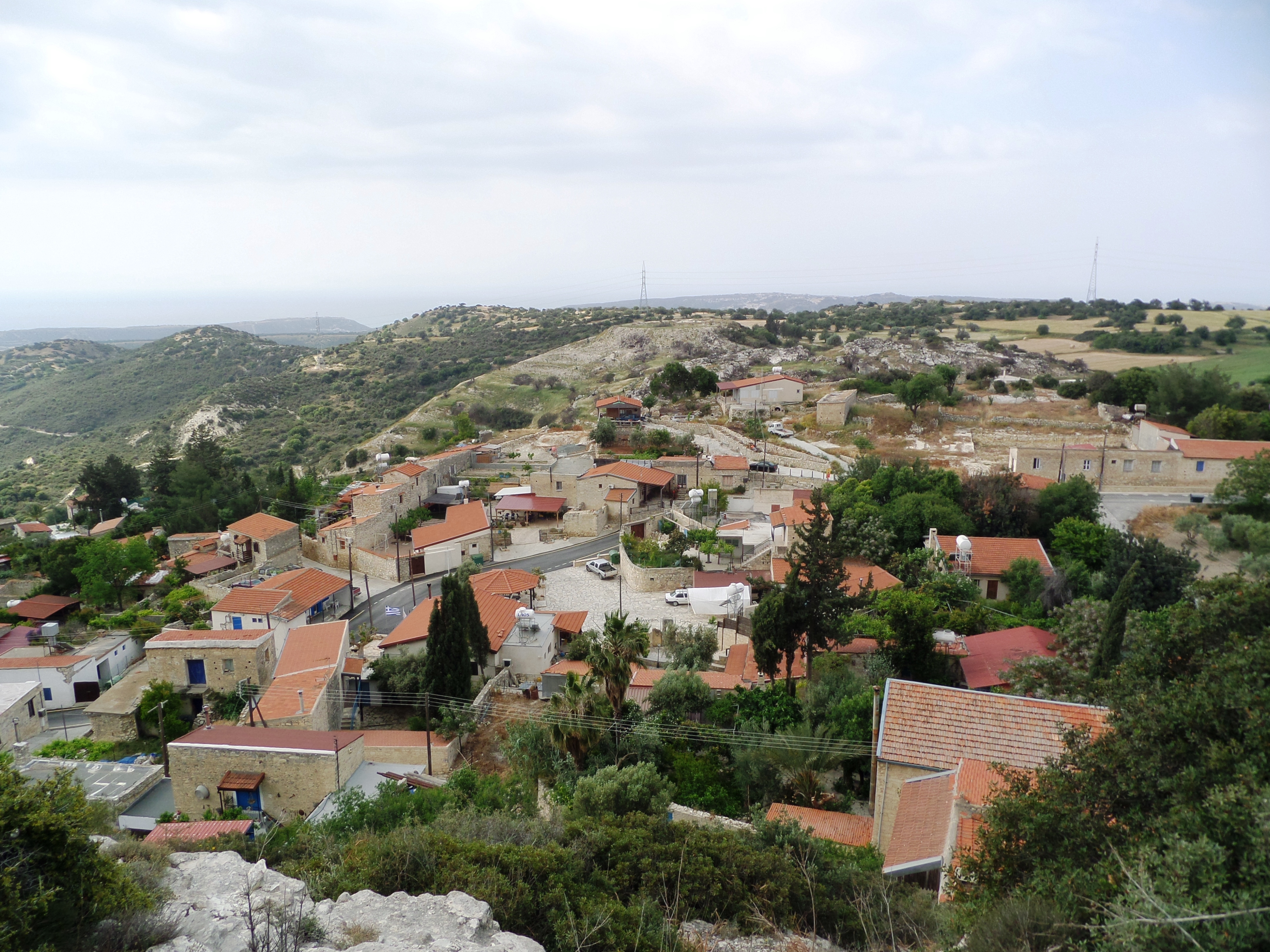 View of Platanisteia.